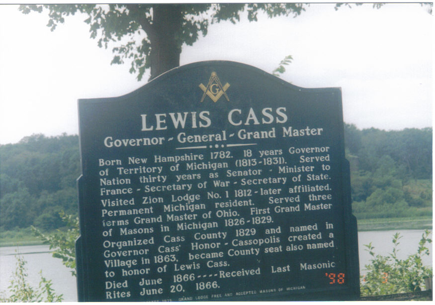 I took photo in 2005.Billy Hathorn (talk) 18:29, 4 July 2008 (UTC)